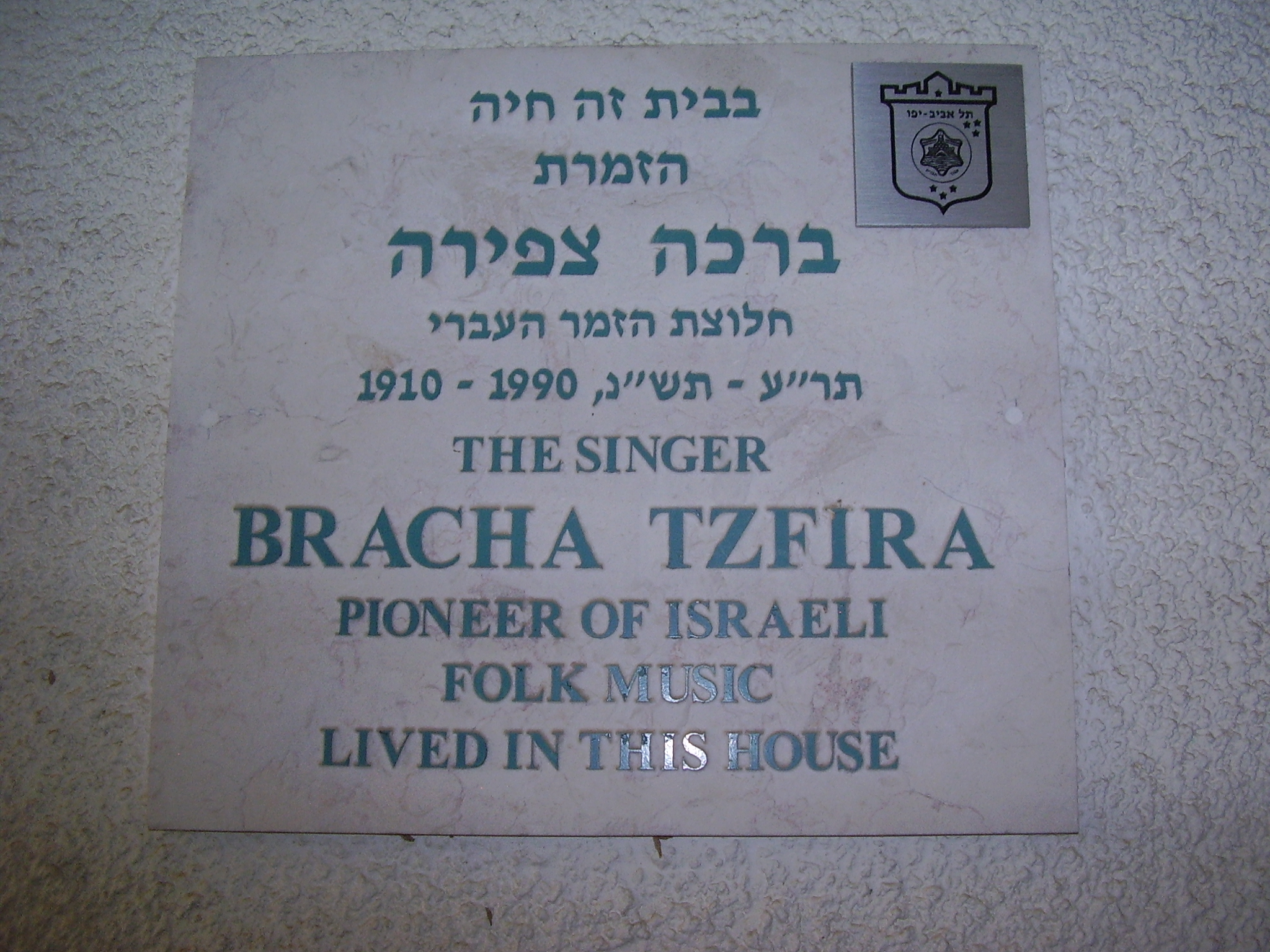 memorial plaque to the singer bracha tzfira in tel aviv לוחית זיכרון על ביתה של ברכה צפירה ברח' הקליר 18 בתל אביב